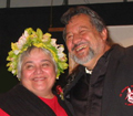 Tariana and Pita at the Maori Party Launch 2005.jpg